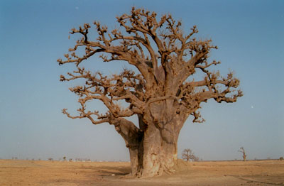 Baobab in dry season, Senegal.